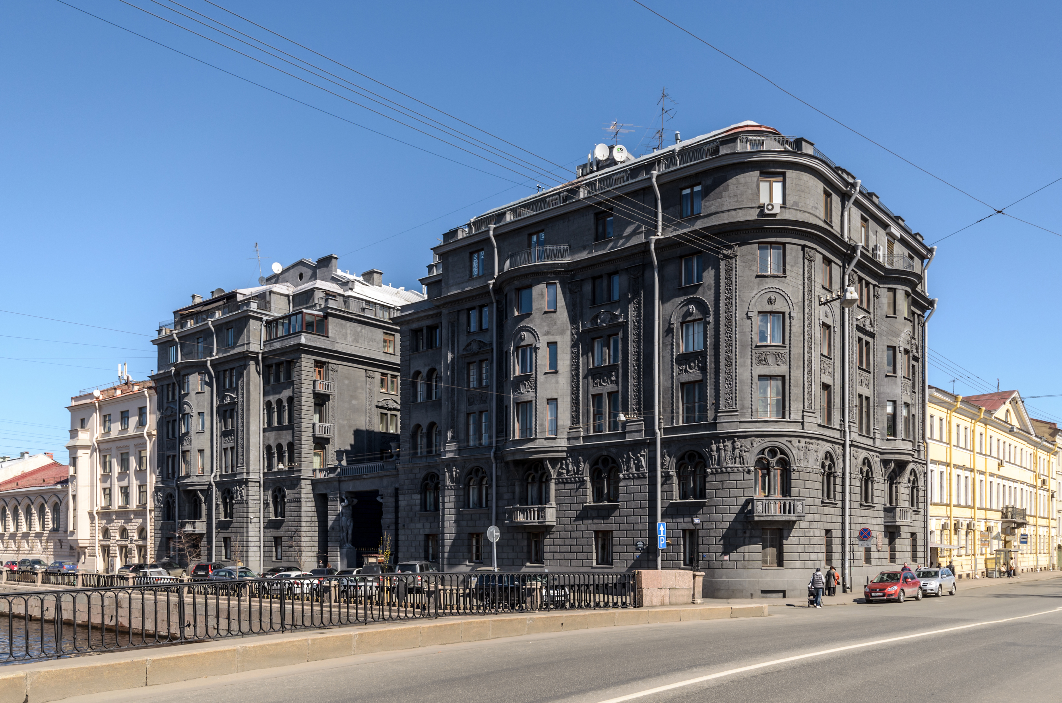 Vege's Apartment house on Krukov Channel Embankment in Saint Petersburg